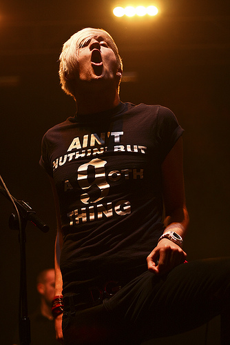 The Blackout Live @ GIAN